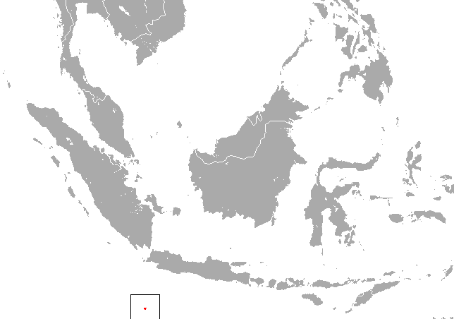 Christmas Island Shrew (Crocidura trichura) range